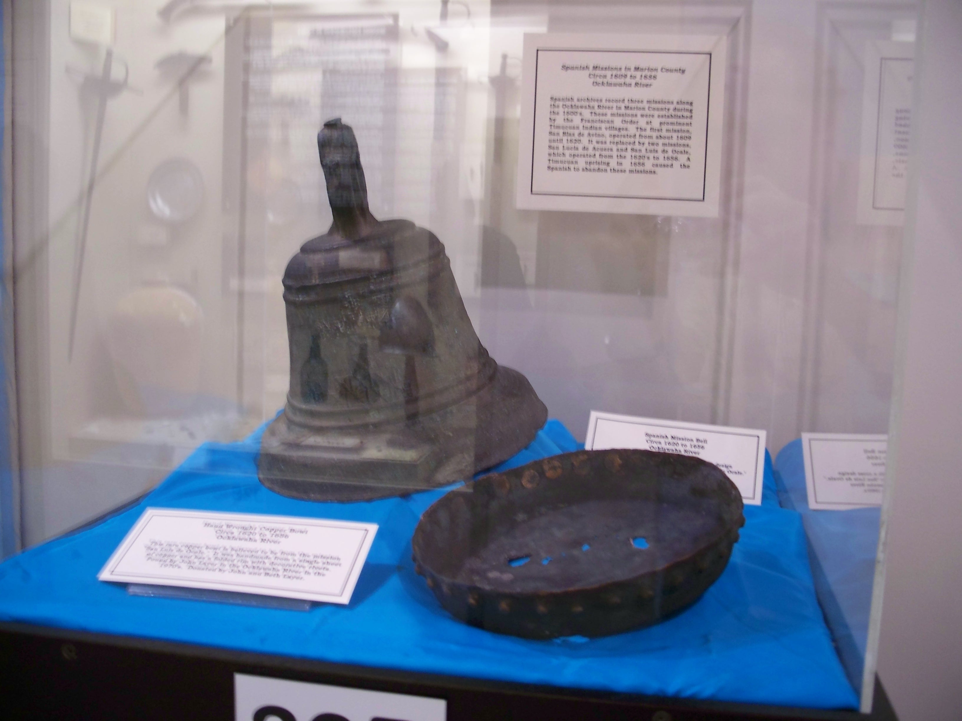 Bell and copper bowl believed to be from the "San Luis de Ocale" Spanish mission, on display in museum in the Silver River State Park, in Silver Springs, Florida